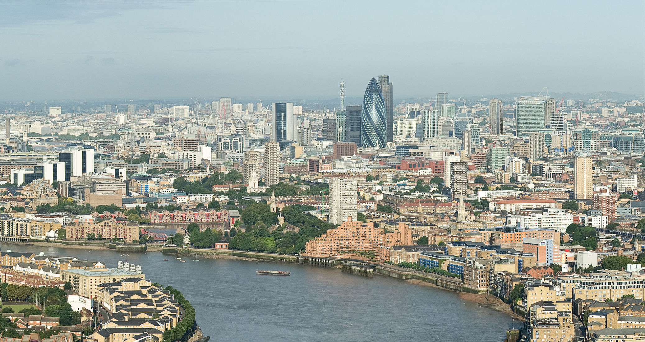 A view of the City of London Skyline from the 37th floor of a Canary Wharf skyscraper. Taken by myself with a Canon 5D and 24-105mm f/4L IS lens.